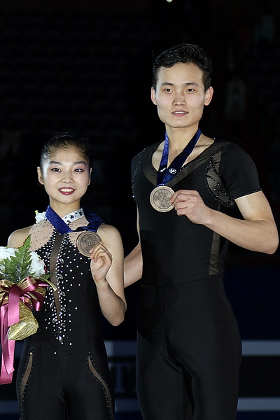 Ryom Tae-ok and Kim Ju-sik at the 2018 Four Continents Championships - Awarding ceremony